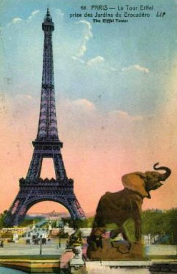 Postcard of France - Department Seine (75) - Paris - titled 68. Paris - La Tour Eiffel prise des Jardins du Trocadéro - Eiffel Tower. (The Eiffel Tower from the jardins du Trocadéro).